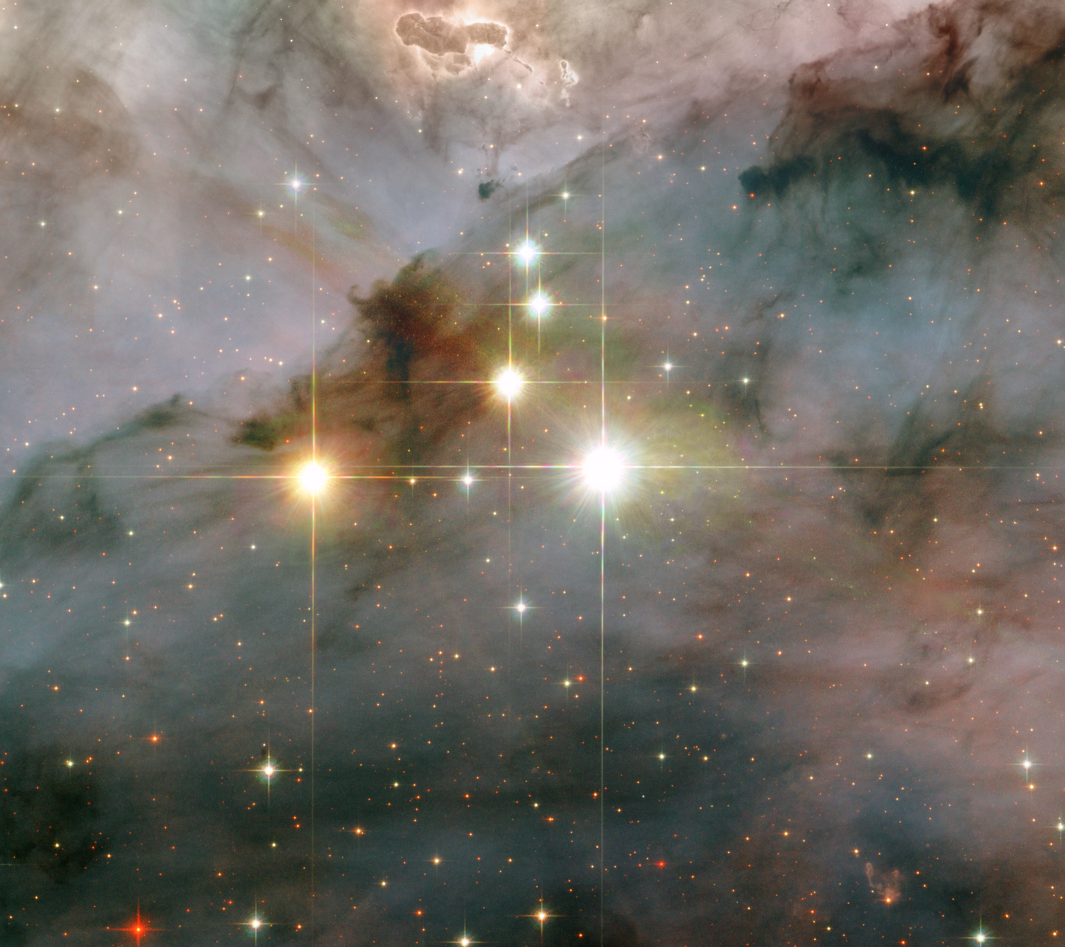 WR 25 and Tr16-244 are located within the open cluster Trumpler 16. This cluster is embedded within the Carina Nebula, an immense cauldron of gas and dust that lies approximately 7500 light-years from Earth in the constellation of Carina, the Keel.